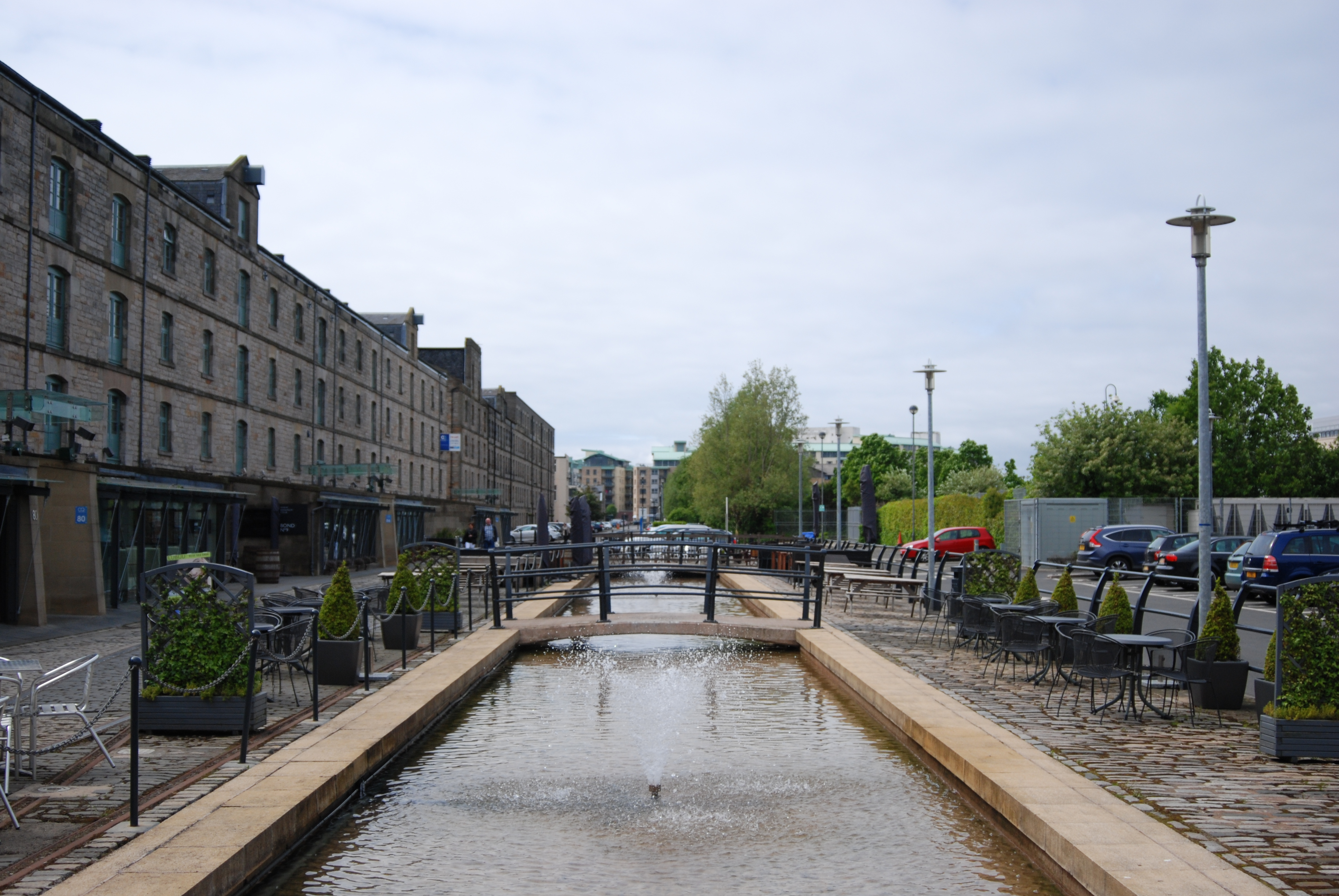 Commercial Quay